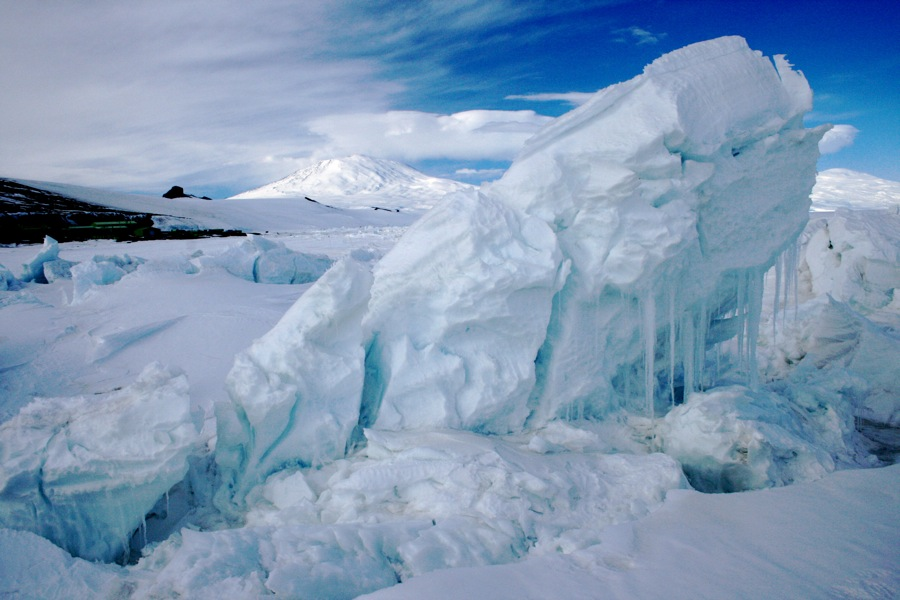 Mount Erebus, Ross Island, Antarctica